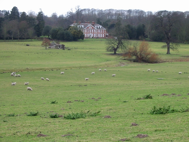 Bourne Park House and sheep fields